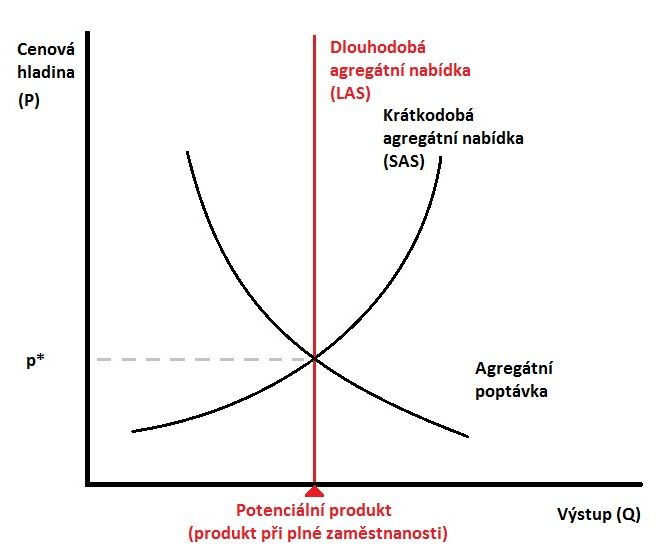 Full employment GDP (maximum sustainable GDP, potential output)